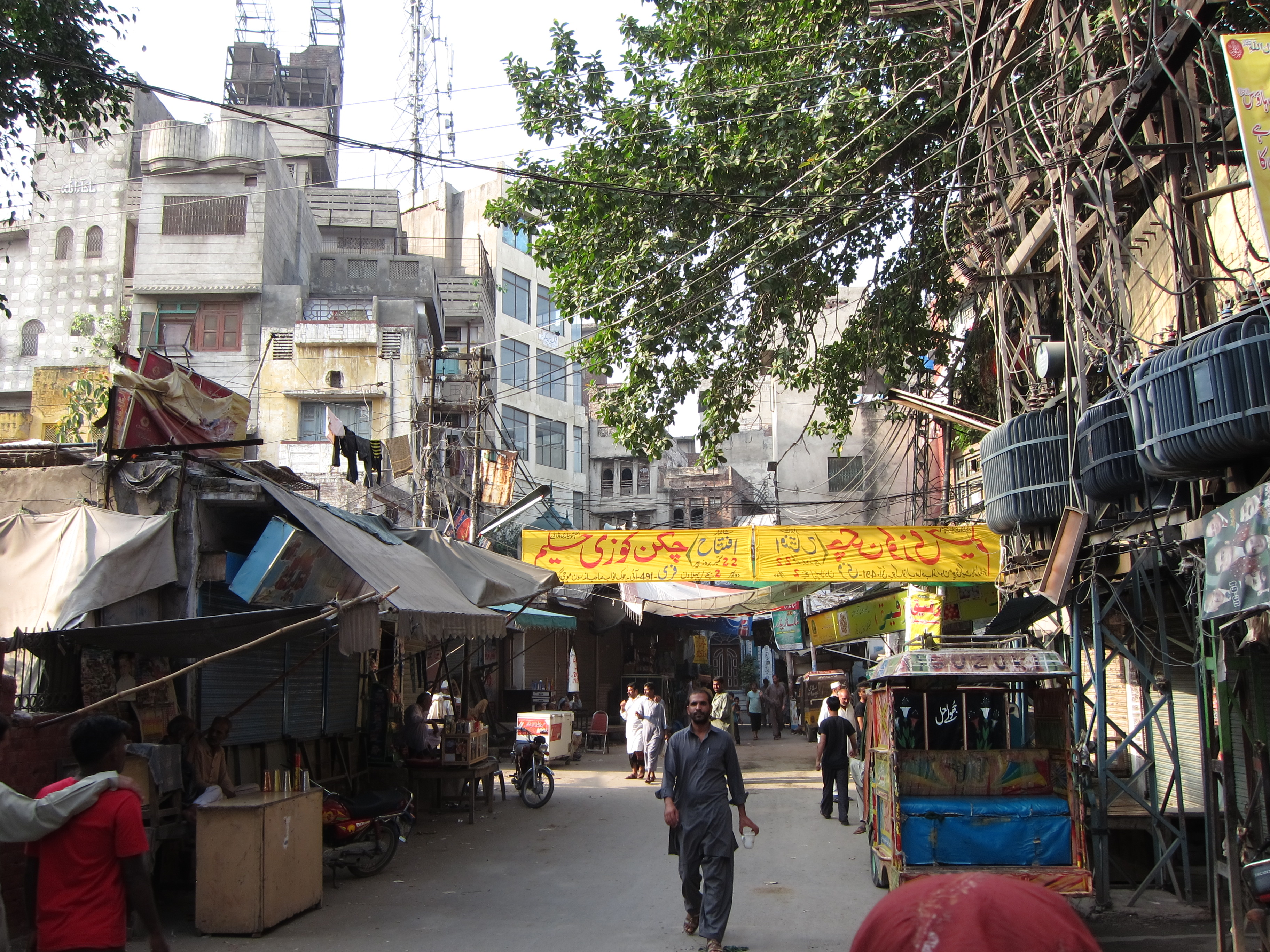 Mochi Gate Enterance (the mochi gate was demolished many years ago) This is a photo of a monument in Pakistan identified as the PB-56